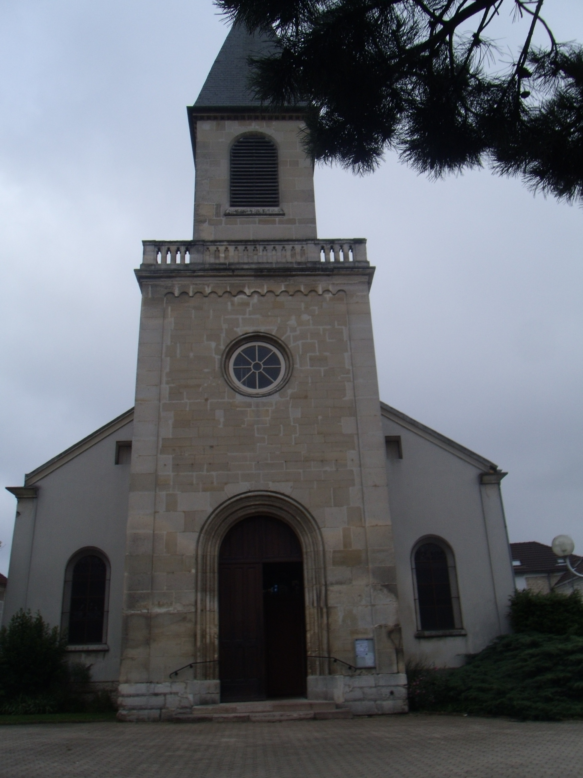 Pierrelaye church